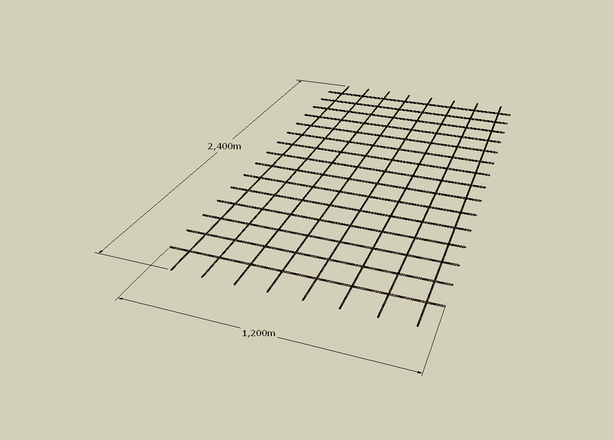 Drawing of welded wire mesh